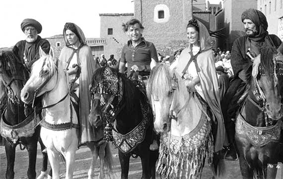 A photo of Mustapha el Akkad on horse back with Anthony Quinn, Irene Papas, Mona Wasif and Abdullah Ghaith